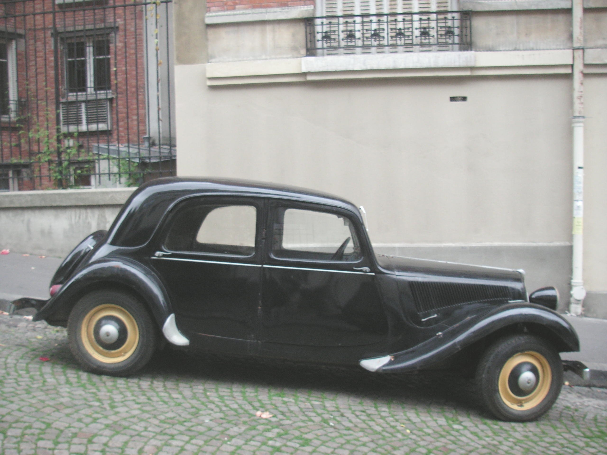 View of a Traction Avant on a street in France.